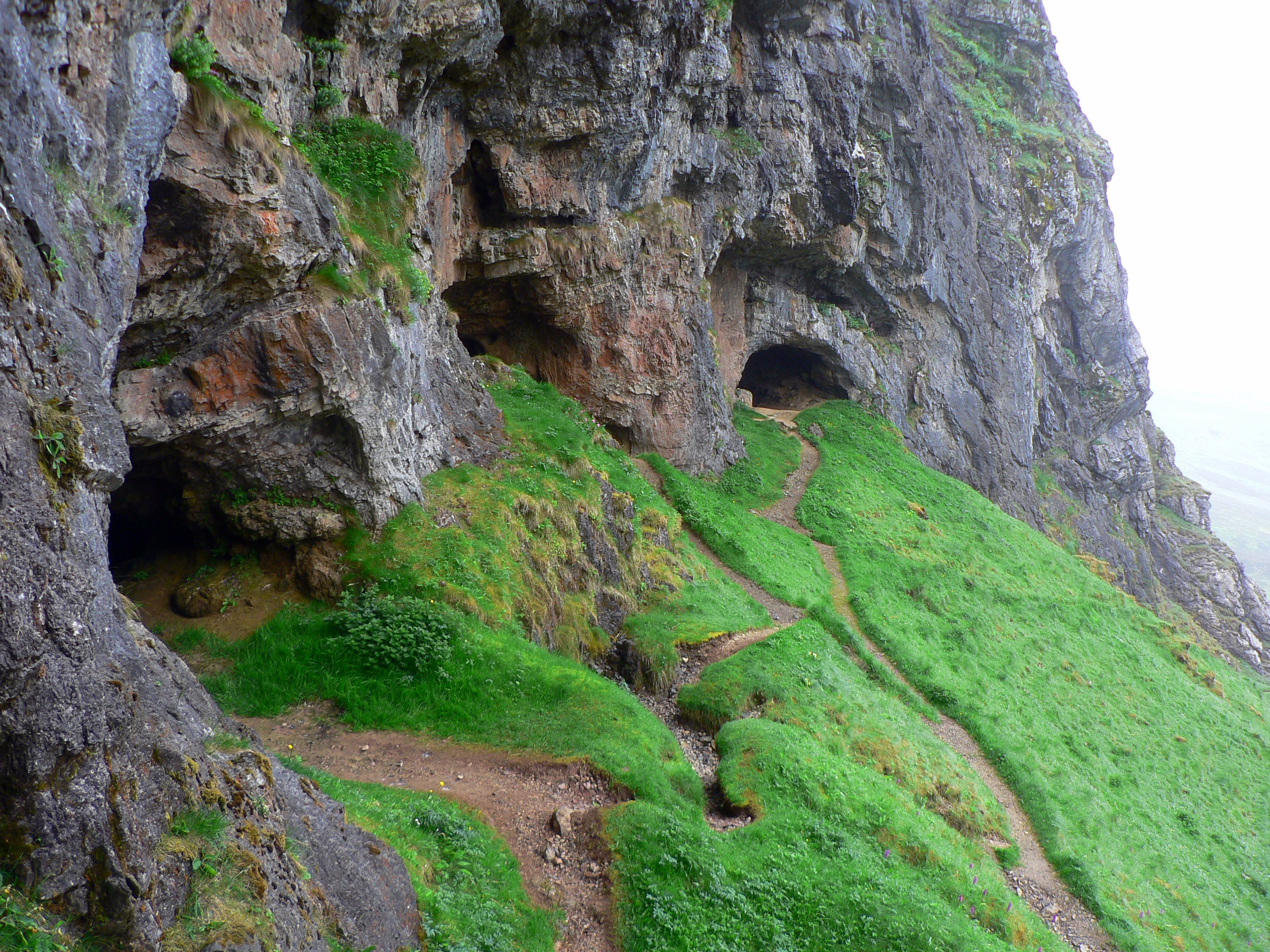 Inchnadamph Bone Caves, Assynt, Sutherland, Highland, Scotland